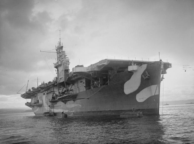 British Bogue/Attacker escort aircraft carrier HMS RAVAGER moored at Greenock.